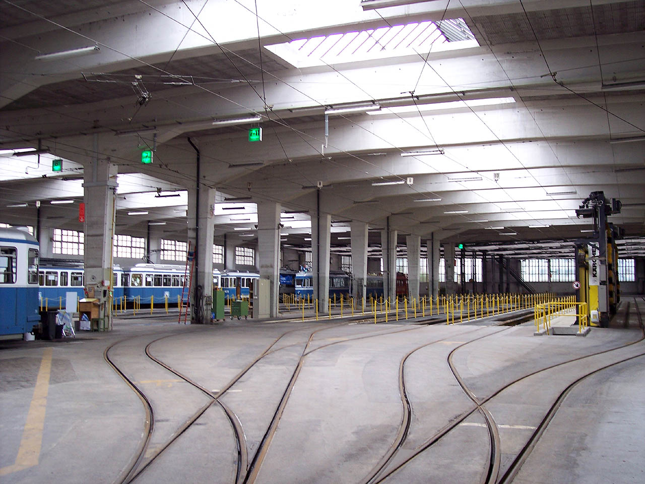 Trams in Zürich: A view of the main tram shed in Wollishofen depot.